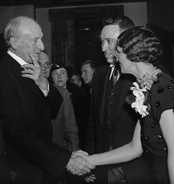 Tennessee Governor Gordon Browning (1889–1976) and his wife, Ida (right), greet U.S. Supreme Court justice James C. McReynolds at a reception in Washington, D.C.